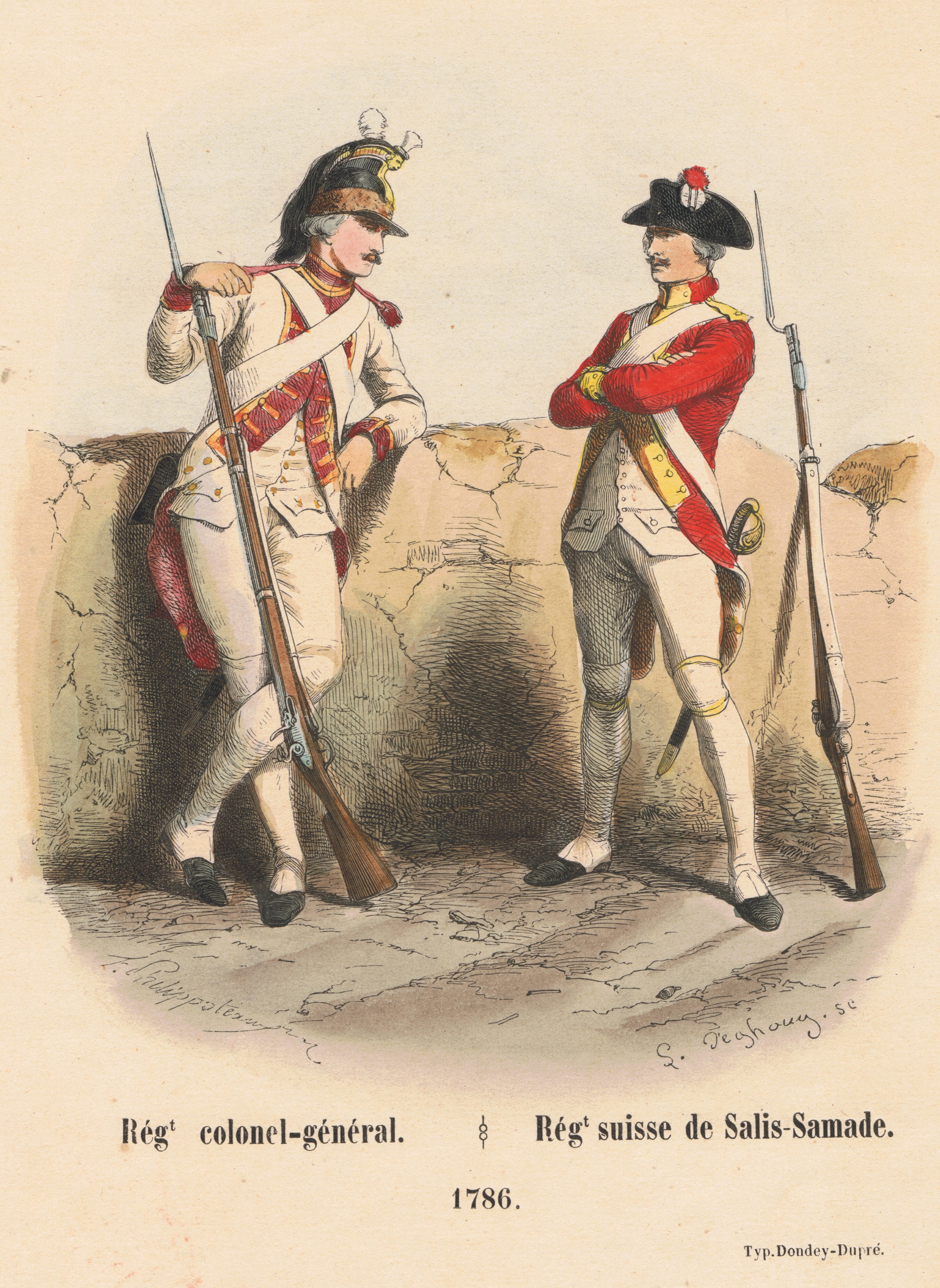 Scan (by me, Rodolph (talk) 00:01, 8 September 2014 (UTC)) of a print, published by Dondey-Dupré, after Henri Félix Emmanuel Philippoteaux, of Régiment colonel-général & Régiment suisse de Salis-Samade, 1786. From: Collection de Types Colories representant Les Uniformes Francais ...., published in 1852 in Paris, France by A. Barbier and/or Dondey-Dupré. Artists and Engravers: The plates are engraved by M. Deghouy (L. Deghouy (French, active 1841–60)), after the drawing by M. Philippoteaux.